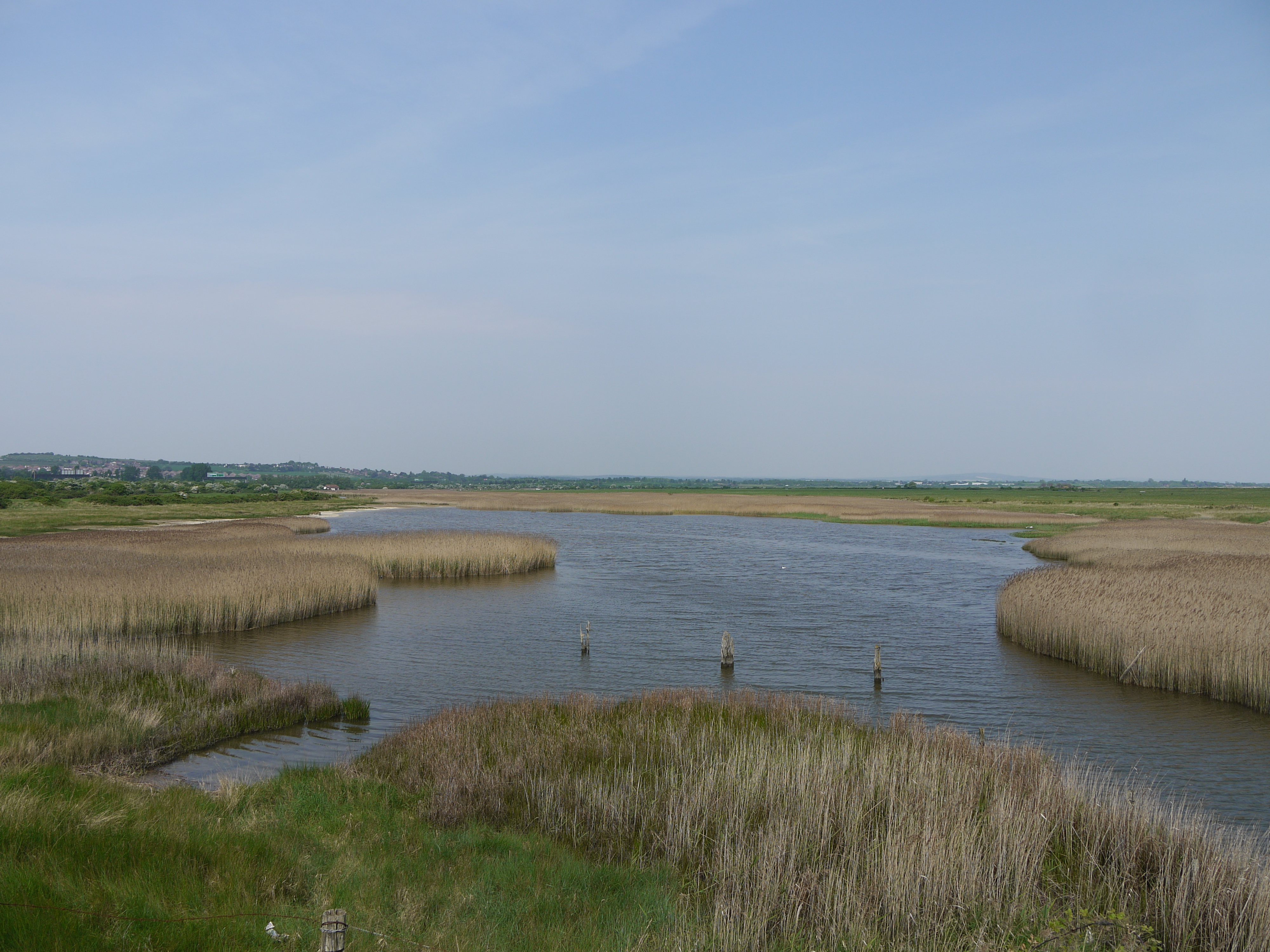 Photo of part of Farlington marshes